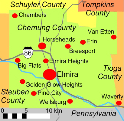 map of Chemung County, NY (correct version)